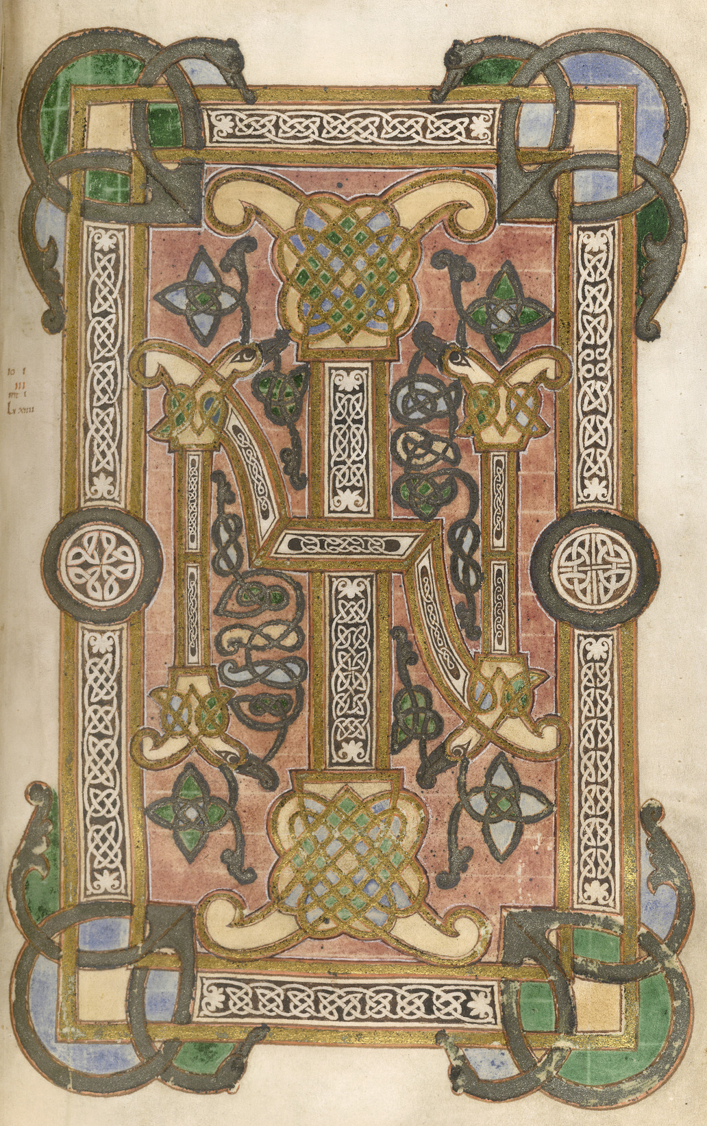 Beginning of the Gospel of St John, with initials 'I' and 'N', and the borders, decorated with an interlace pattern